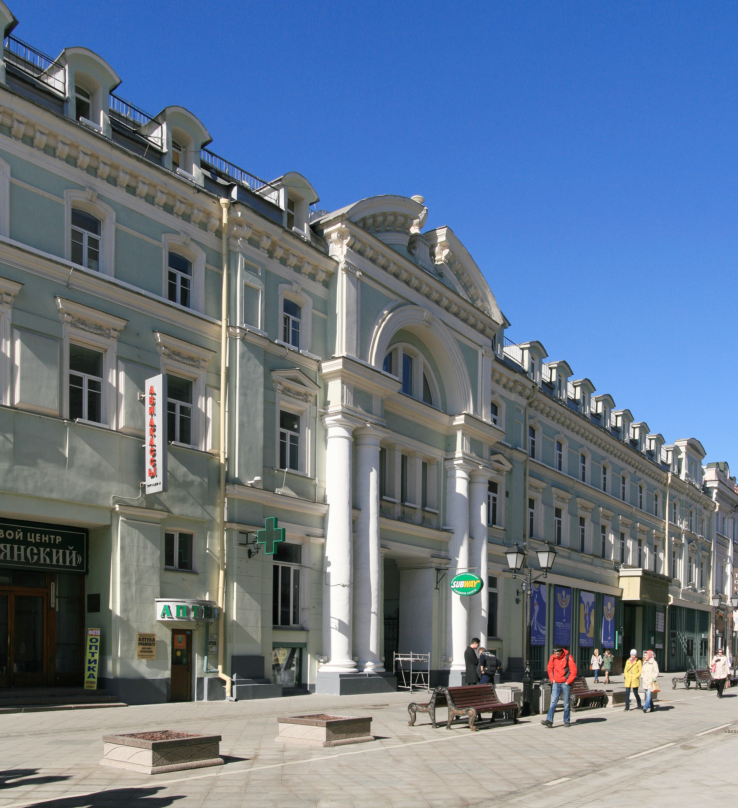 Hotel and restaurant "Slavyansky Bazar", Nikolskaya 17, Moscow